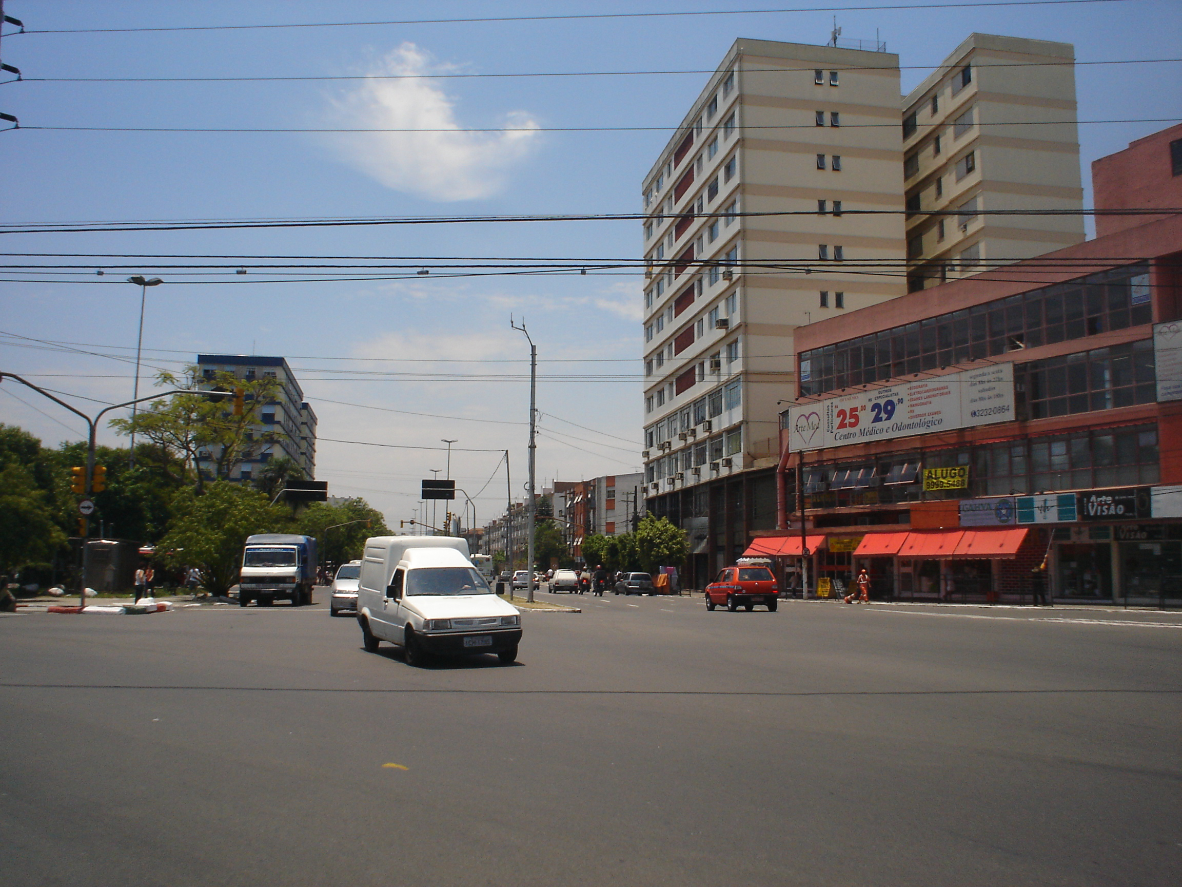 Azenha neighborhood in Porto Alegre, Brazil.